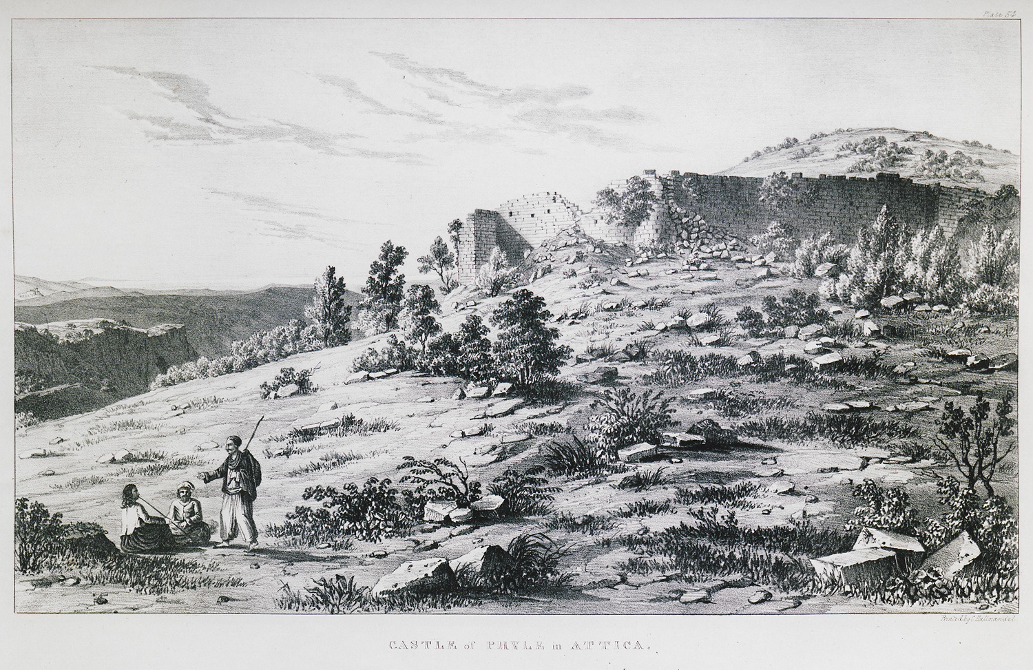 Edward Dodwell. Views and Descriptions of Cyclopian, or, Pelasgic Remains, in Greece and Italy; with Constructions of a later Period, London, Adolphus Richter, MDCCCXXXIV (1834)